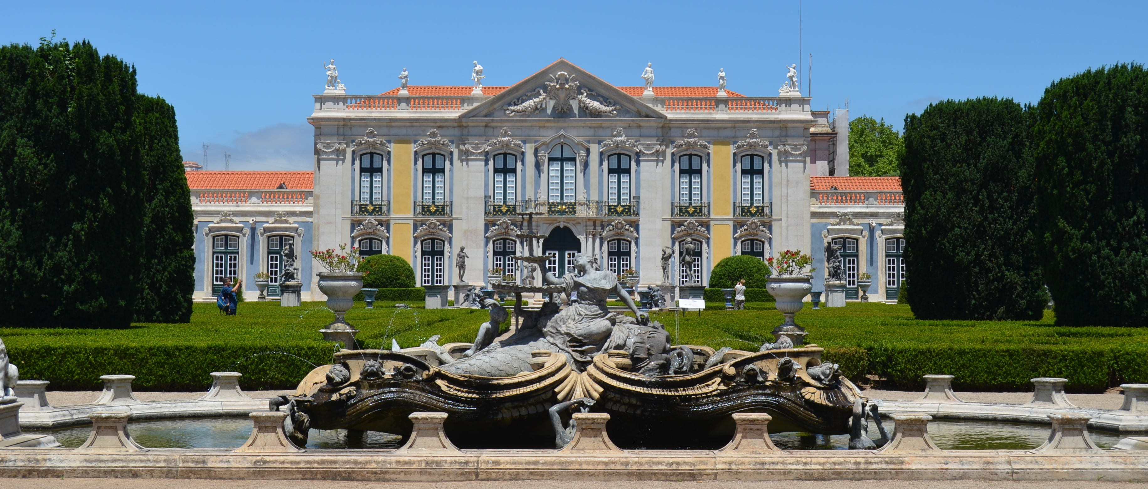 Eternal beauty